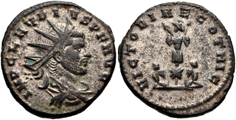 Claudius II Gothicus. AD 268-270. Antoninianus (19mm, 4.68 g, 1h). Cyzicus mint. IMP CLAVDIVS P F AVG Radiate, draped, and cuirassed bust right; four pellets behind VICTORIAE GOTHIC, bound captives seated either side of trophy. Cf. RIC V 252. Near EF, silvered. From the Elliott-Kent Collection. Ex Classical Numismatic Group 58 (19 September 2001), lot 1305. This coin marks the victories over successive waves of invaders that threatened to dismember the empire in the late 3rd century. Gallienus (not Claudius) had achieved the initial victory over the Goths at Naissus in 268, but Claudius' victories over the Germans at Lake Benacus and the Goths at Mount Gessax shattered the barbarian armies. However, plague swept the weakened hordes, eventually claiming the emperor and much of his army as victims.